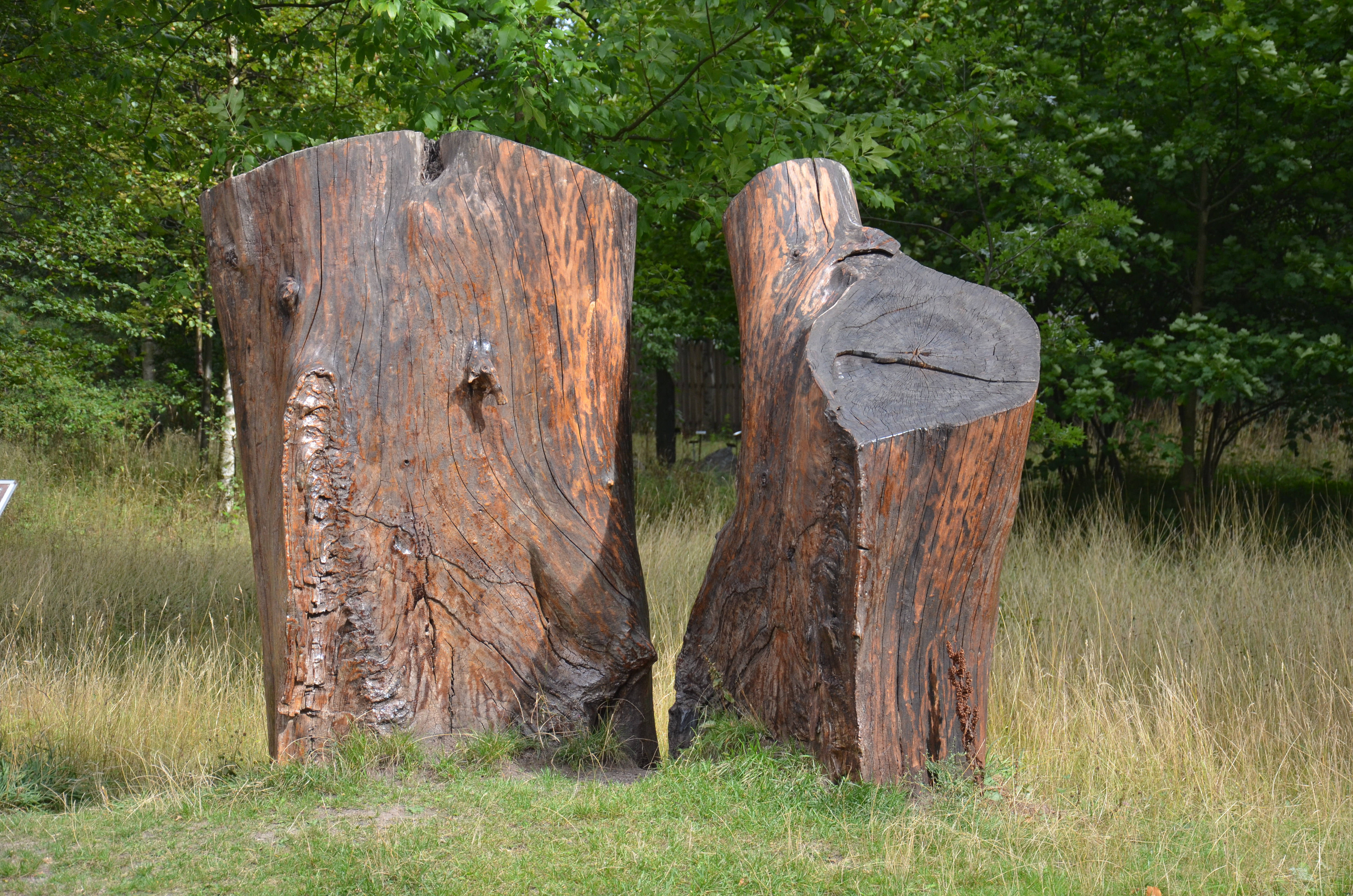 Gillis Samuelssons Resterna av ljusträdet på Universitetsplatsen, 2000, Botaniska trädgården i Lund (almträ)